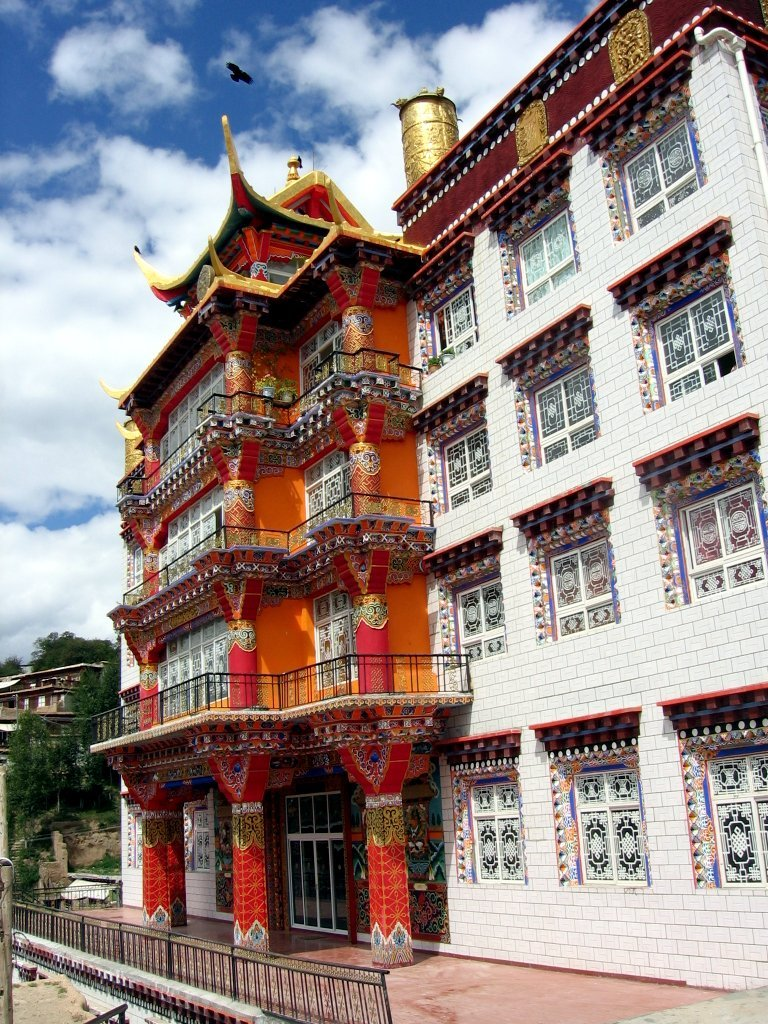 Kandze Gompa, Ganzi Si or Ganzi monastery. Home of more than 500 Gelupka monks. Was built on 17th century.